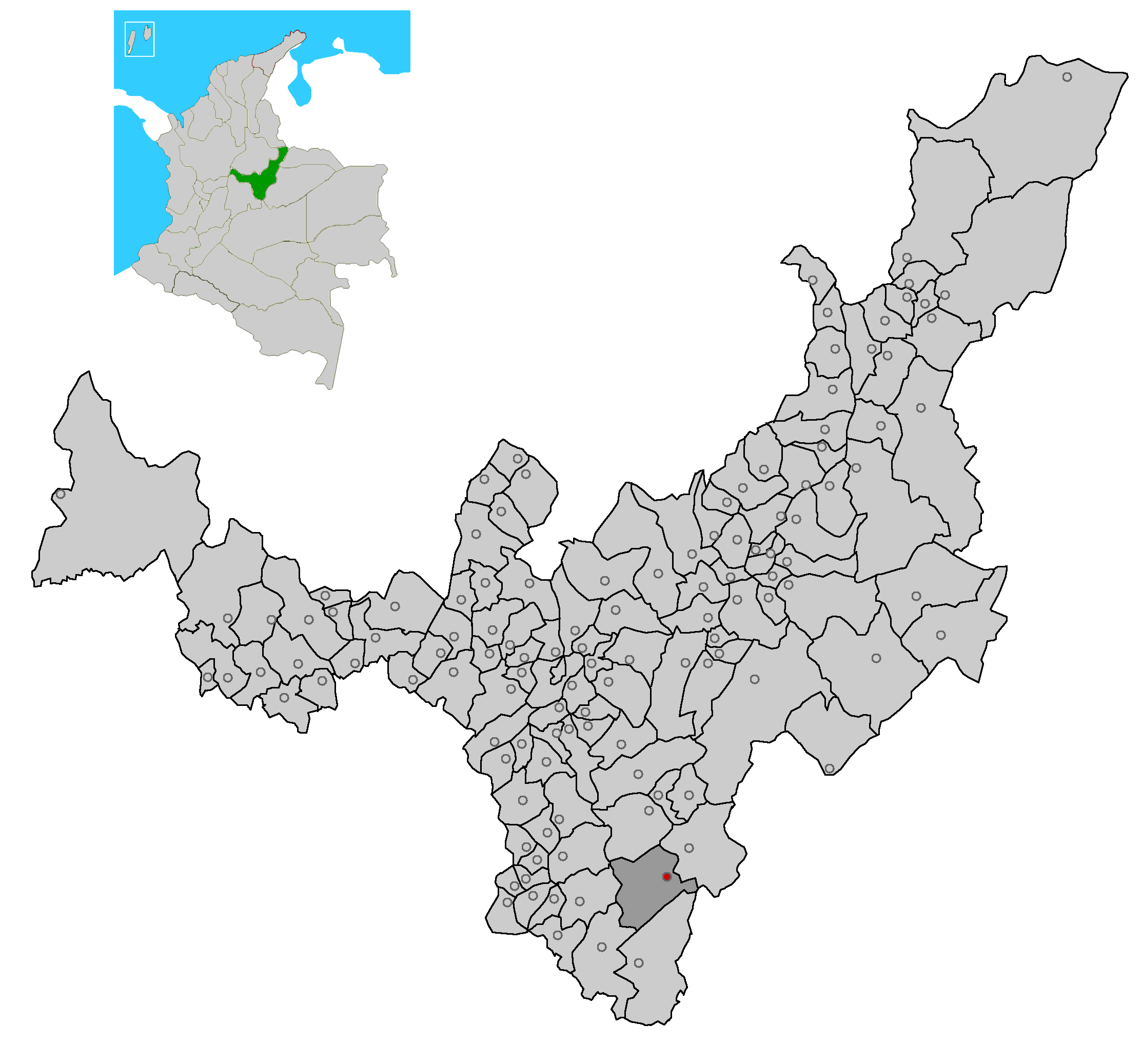 Image depicting map location of the town and municipality of Campohermoso in Boyaca Department, Colombia